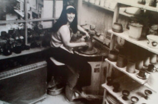 Photo of the potter Anne Shaw throwing at the wheel in workshop of Haworth Pottery; pots on shelves awaiting glaze, others, second firing